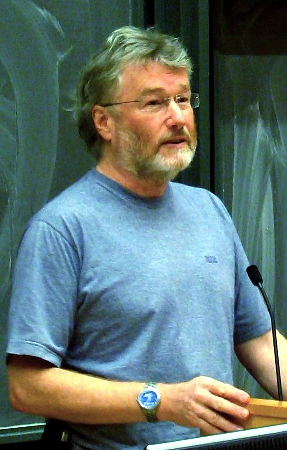 Lecture of Scottish science fiction author Iain Banks in Oslo, Norway